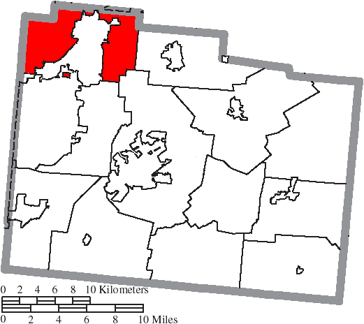 Map of the municipal and township boundaries of Greene County, Ohio, United States, as of the 2000 census, with the location of Bath Township highlighted. Township borders are shown only in unincorporated areas in order to differentiate incorporated and unincorporated areas more clearly.